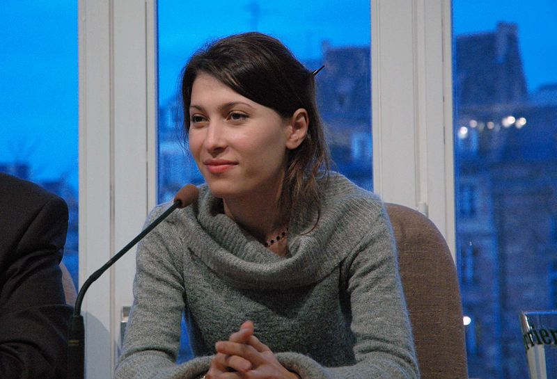 Photograph of Milana Terloeva